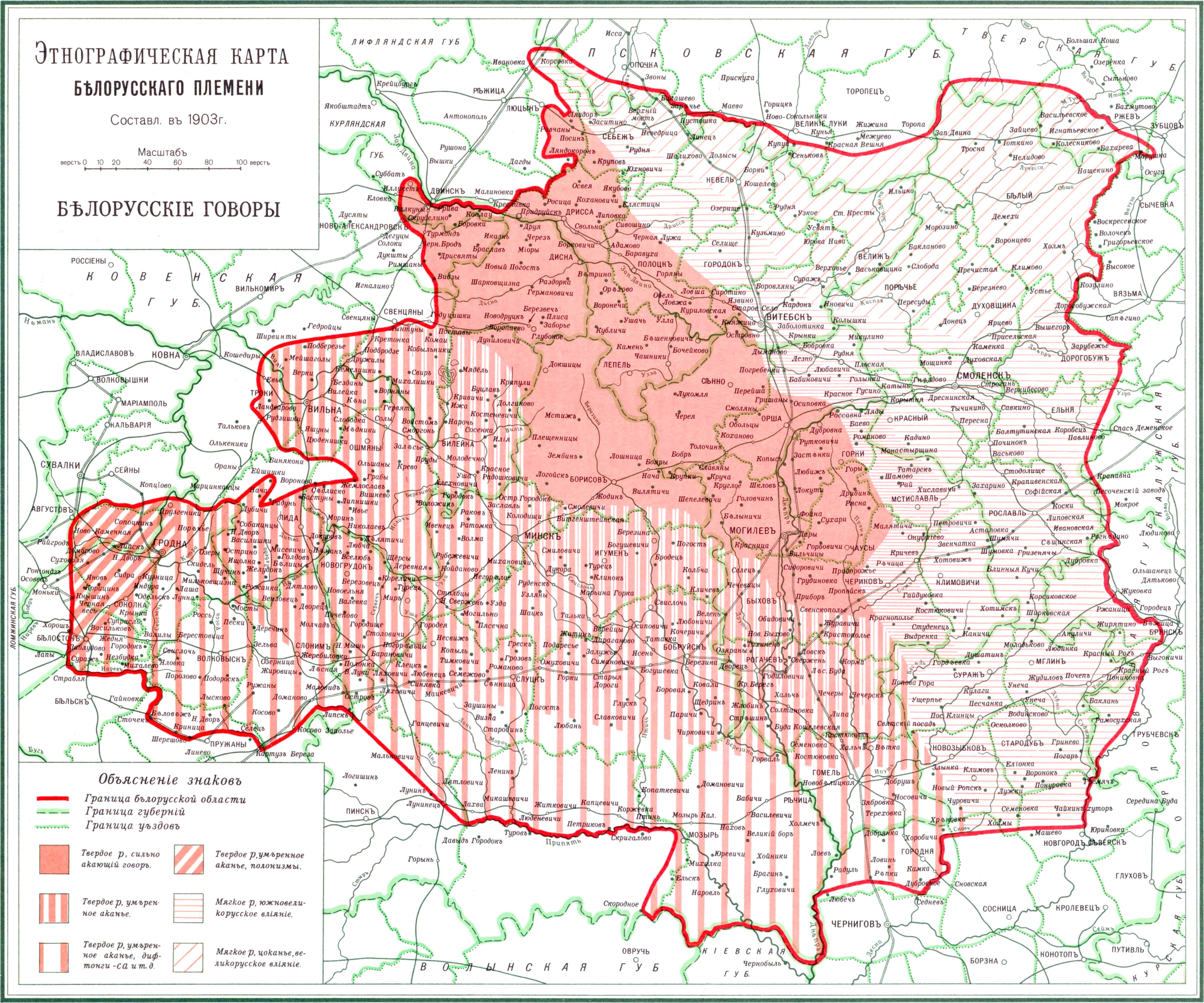 Ethnographical map of the belarusian tribe